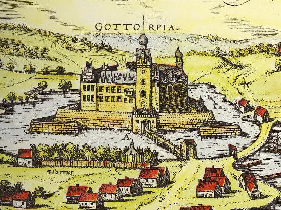 Part of a historical sight of the German town of Schleswig by Georg Braun and Frans Hogenberg (between 1572 and 1618)